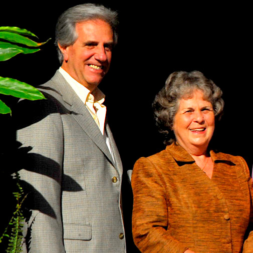 Tabaré Vázquez and María Auxiliadora Delgado